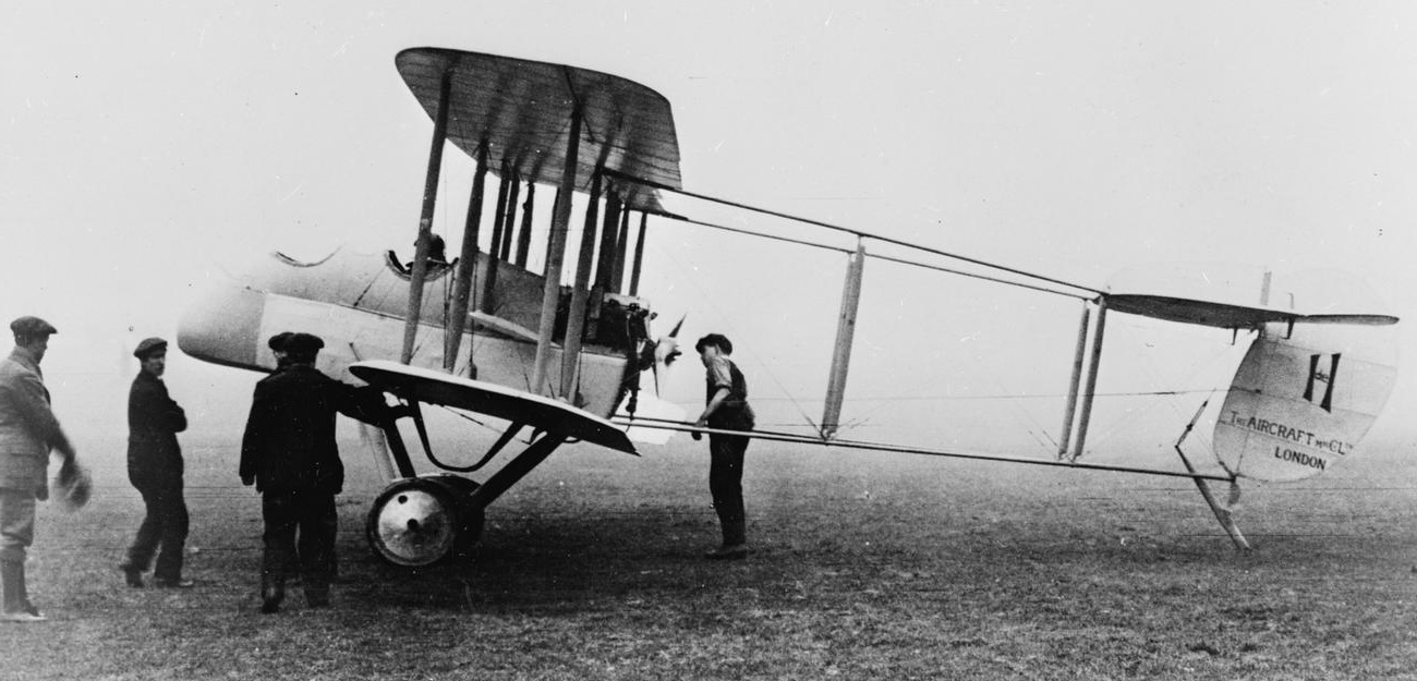 Airco DH.1